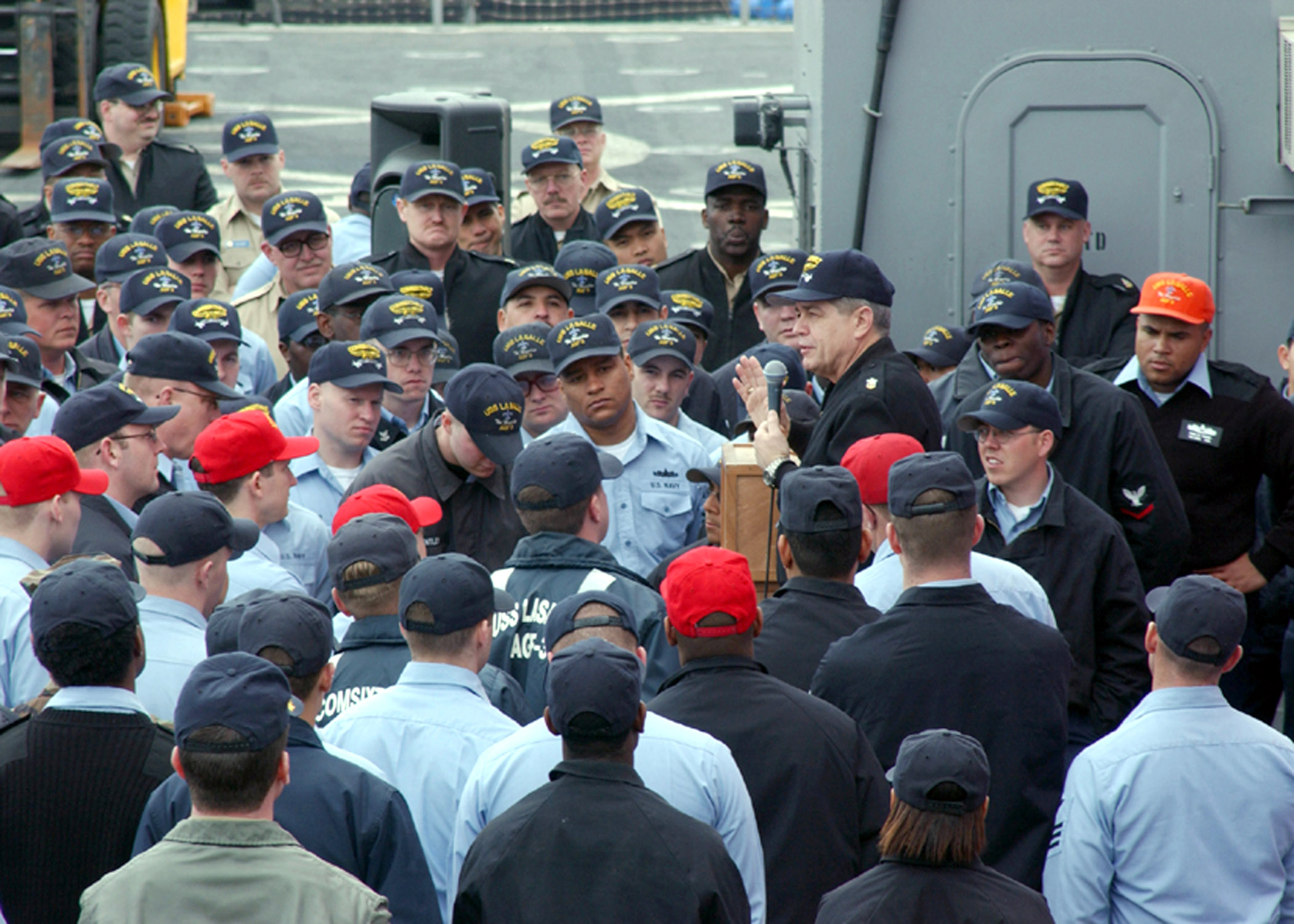 020328-Onboard USS La Salle (AGF 3) Gaeta, Italy, Mar. 28, 2002 -- Master Chief Petty Officer of the Navy (MCPON) James L. Herdt, visits the Sixth Fleet flagship to express his appreciation for those serving the U.S. Navy forward deployed. Master Chief Herdt is the ninth MCPON and will turnover the reigns as the senior enlisted person in the Navy to Master Chief Petty Officer Terry D. Scott in April of this year. U.S. Navy photo by PH2 Paul J. Phelps. (RELEASED)